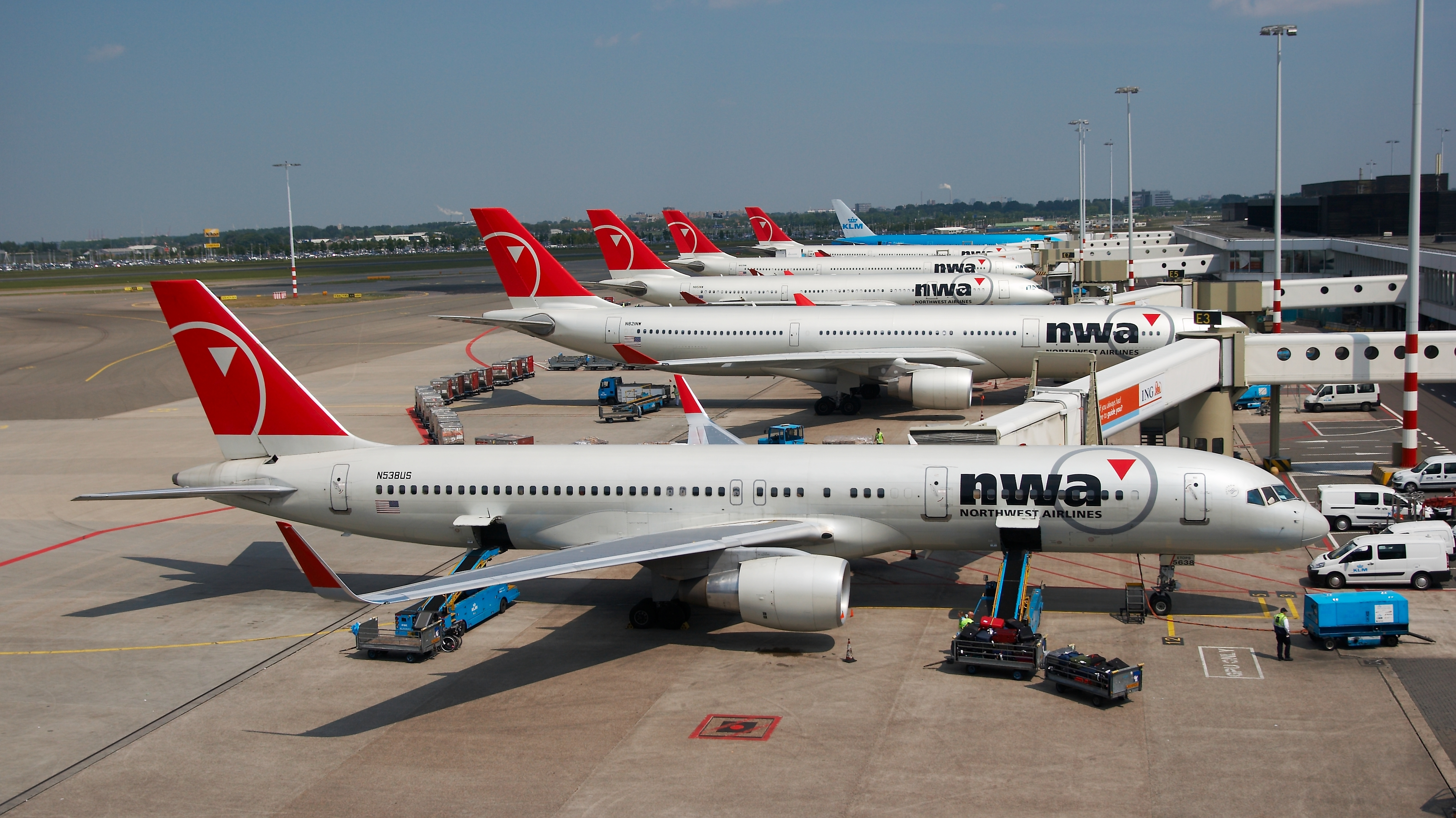 Aircraft: Boeing 757-251 Airline: Northwest Airlines Registration/CN: N538US / 5638 (cn 26485/699) Place: Amsterdam - Schiphol (AMS / EHAM)